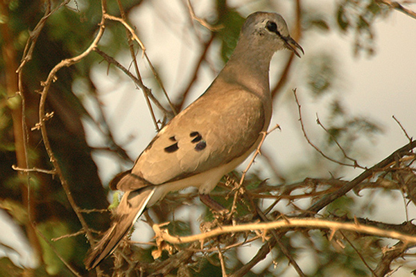 Uganda Black-billed Wood Dove Turtur abyssinicus